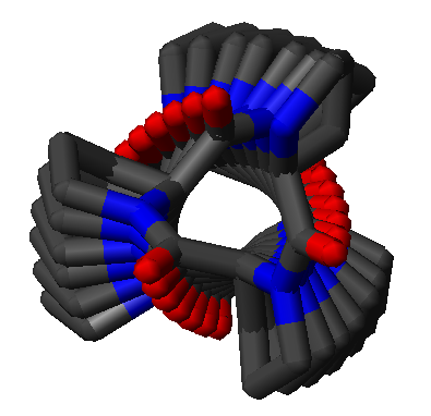 Top view of the poly-Pro I helix, made with MOLMOL.